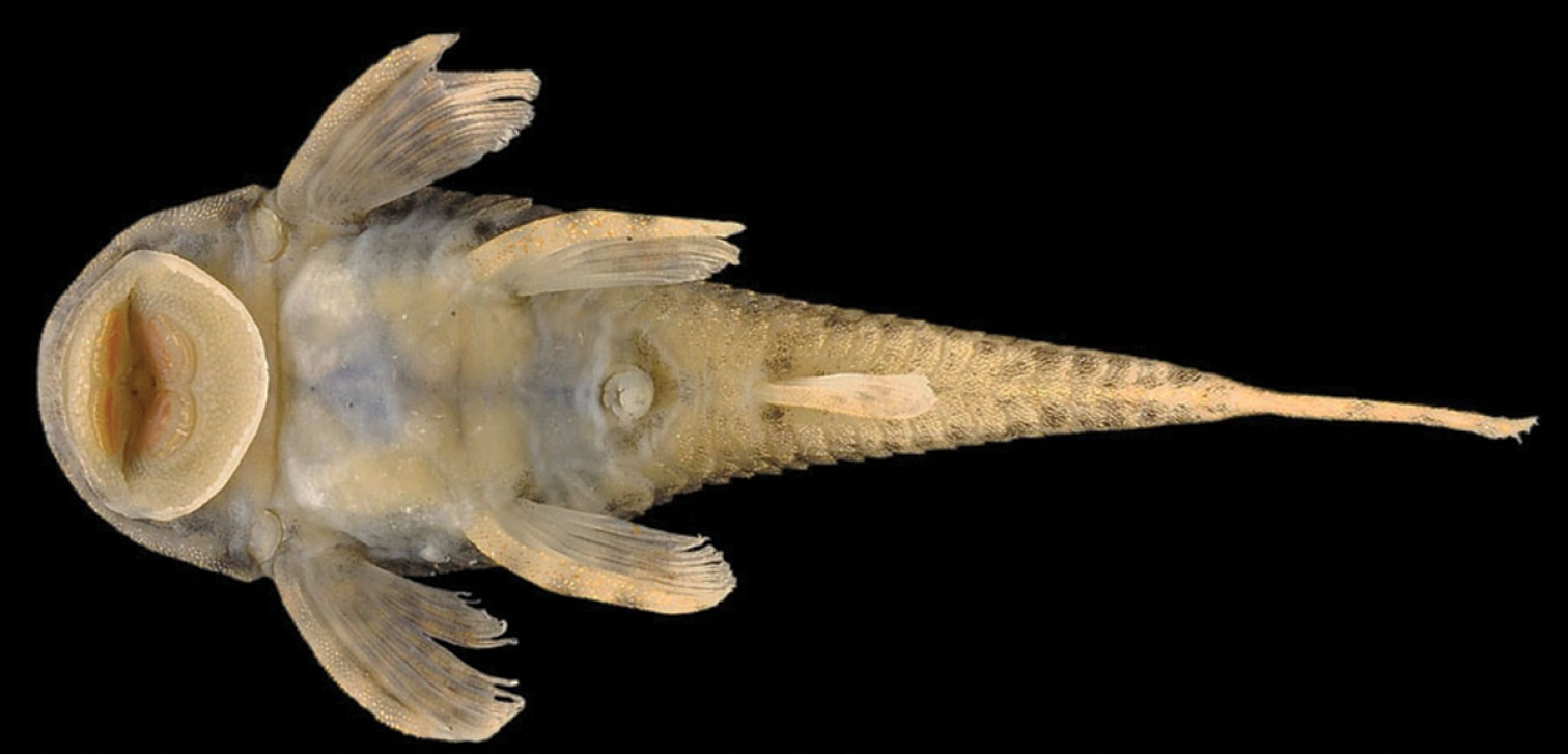 Pareiorhina hyptiorhachis, MZUSP 111956, 33.6 mm SL, holotype from Ribeirão Fernandes, Rio Paraíba do Sul basin, municipality of Santa Barbara do Tugúrio. Ventral view.